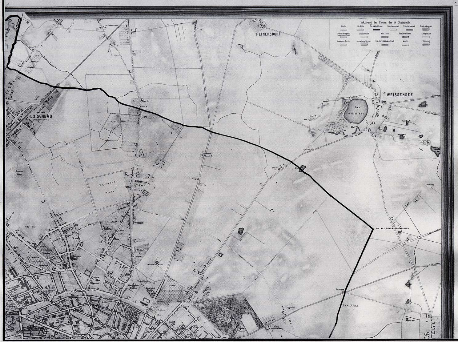 Municipal area in northeast Berlin (fat lines are borders)